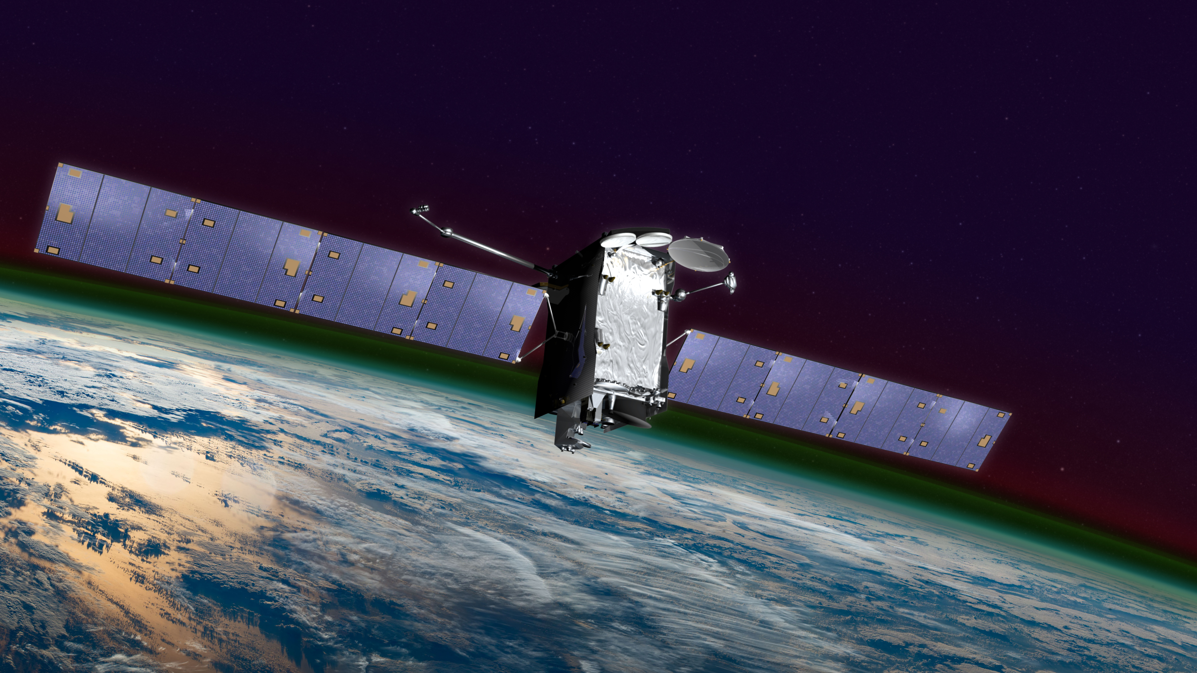 Artist rendering of the SES-14 satellite, which carried the Global-scale Observations of the Limb and Disk (GOLD) instrument as NASA's first-ever hosted payload.